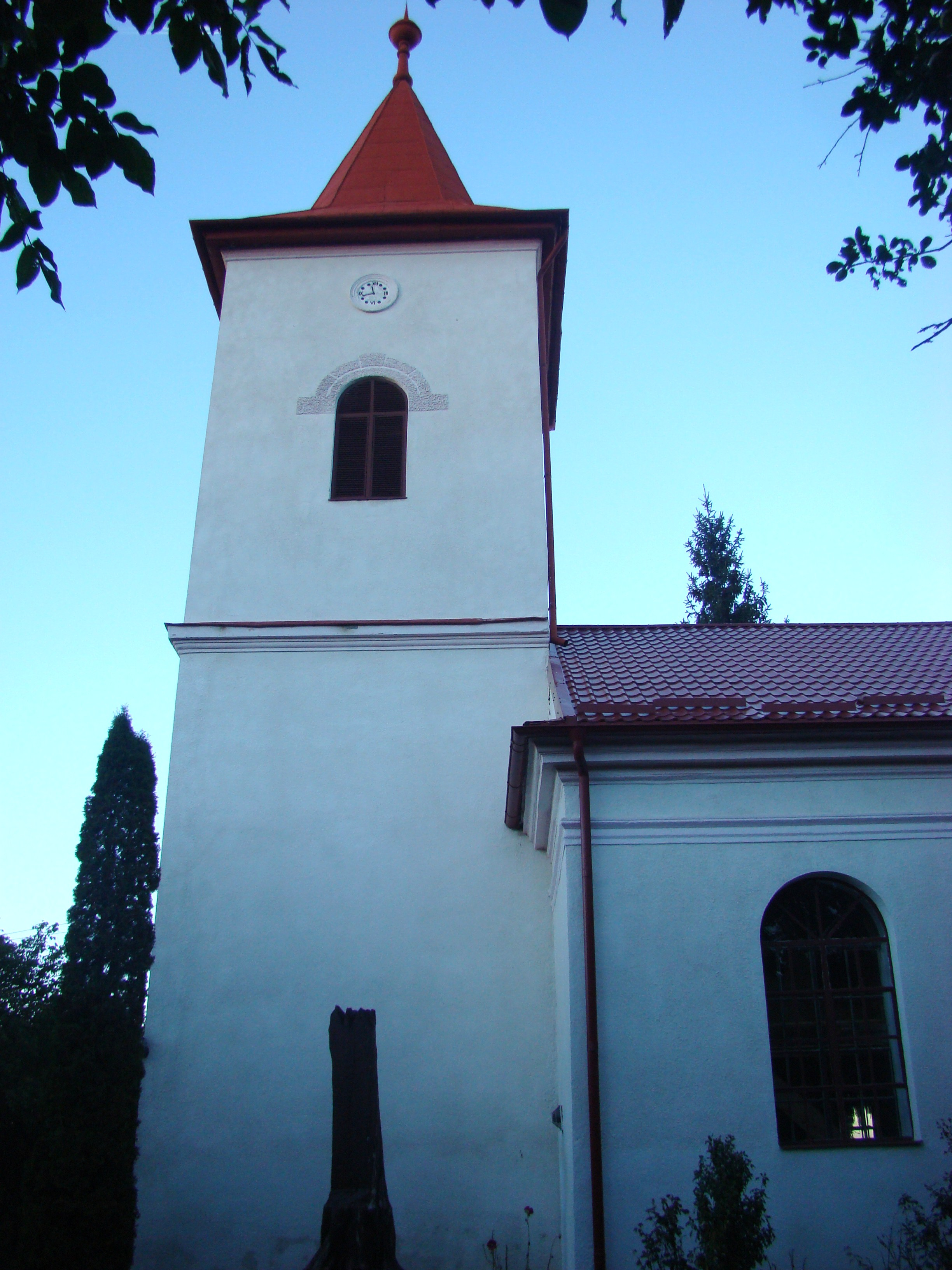 Protestant church in Gheorgheni, Cluj county, Romania